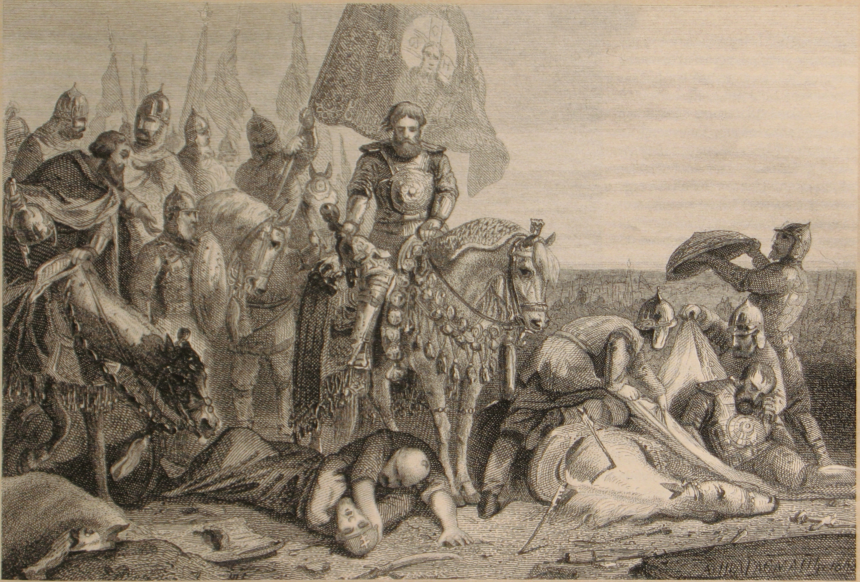 Dmitry Donskoy + Peresvet. Дмитрий Донской (на коне), Пересвет и Челубей (убиты) на Куликовом поле. Гравюра.